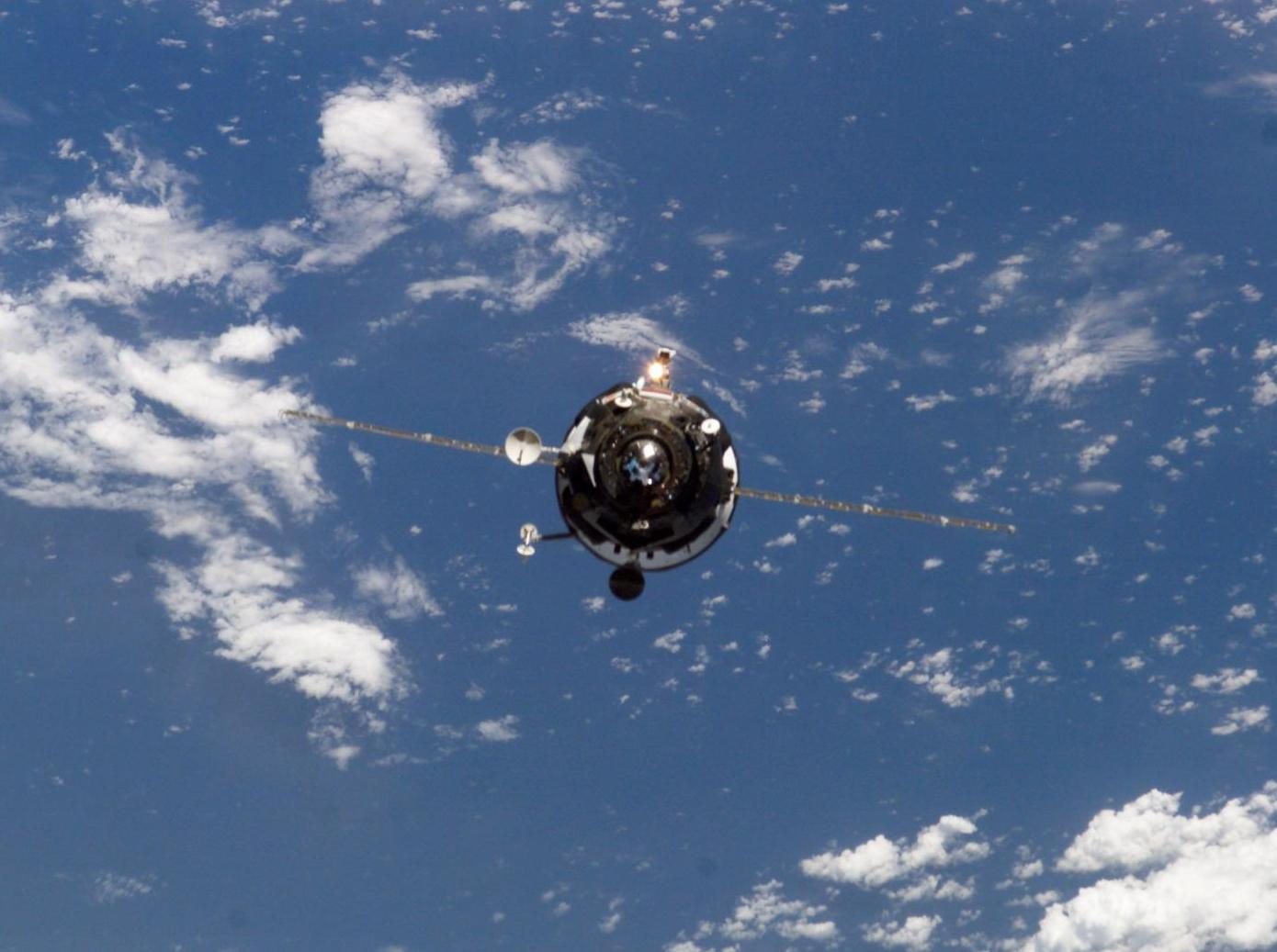 Cropped image of Progress M1-11 seen from the International Space Station during docking.